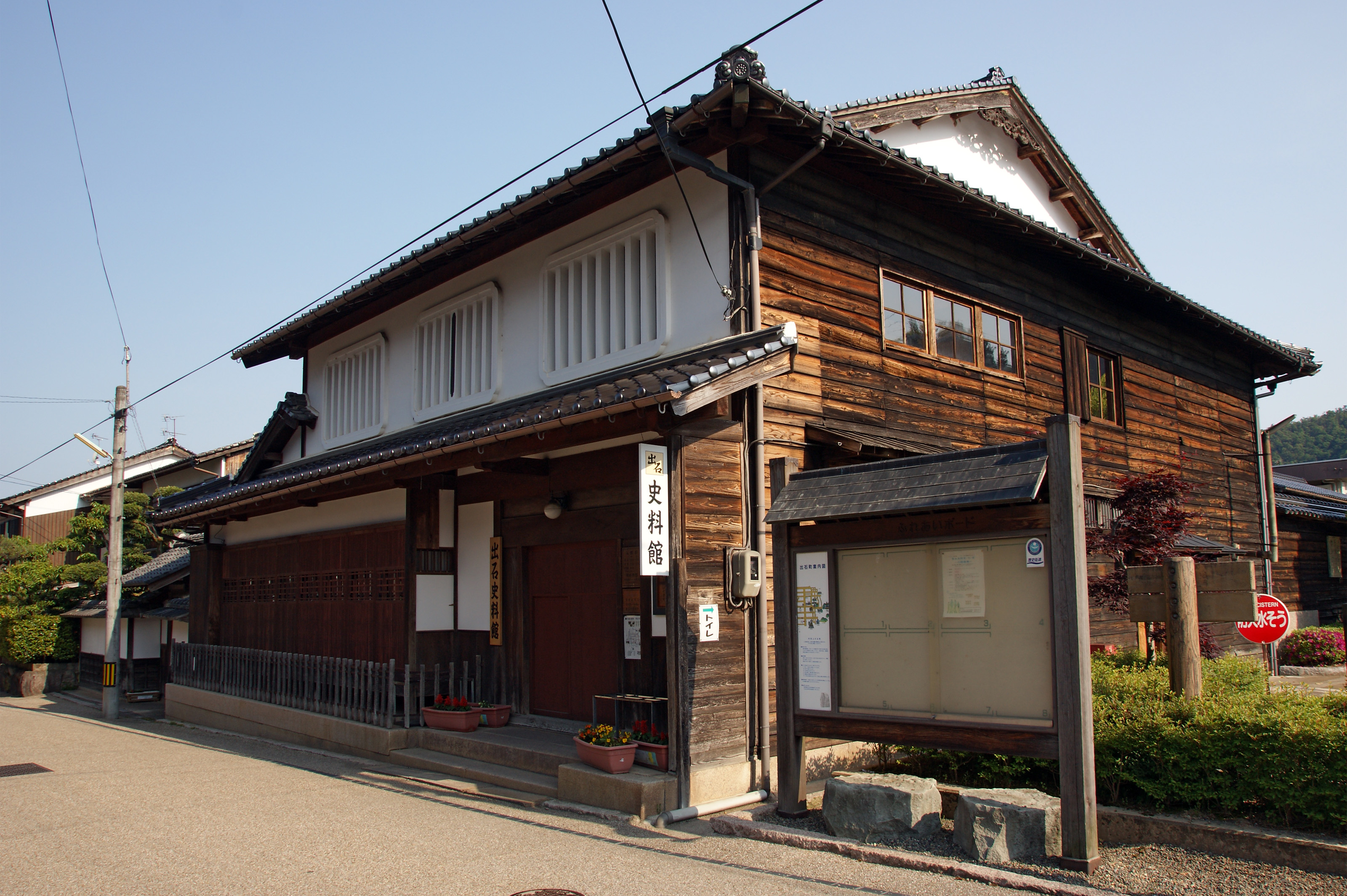 Izushi Museum in Toyooka, Hyogo prefecture, Japan